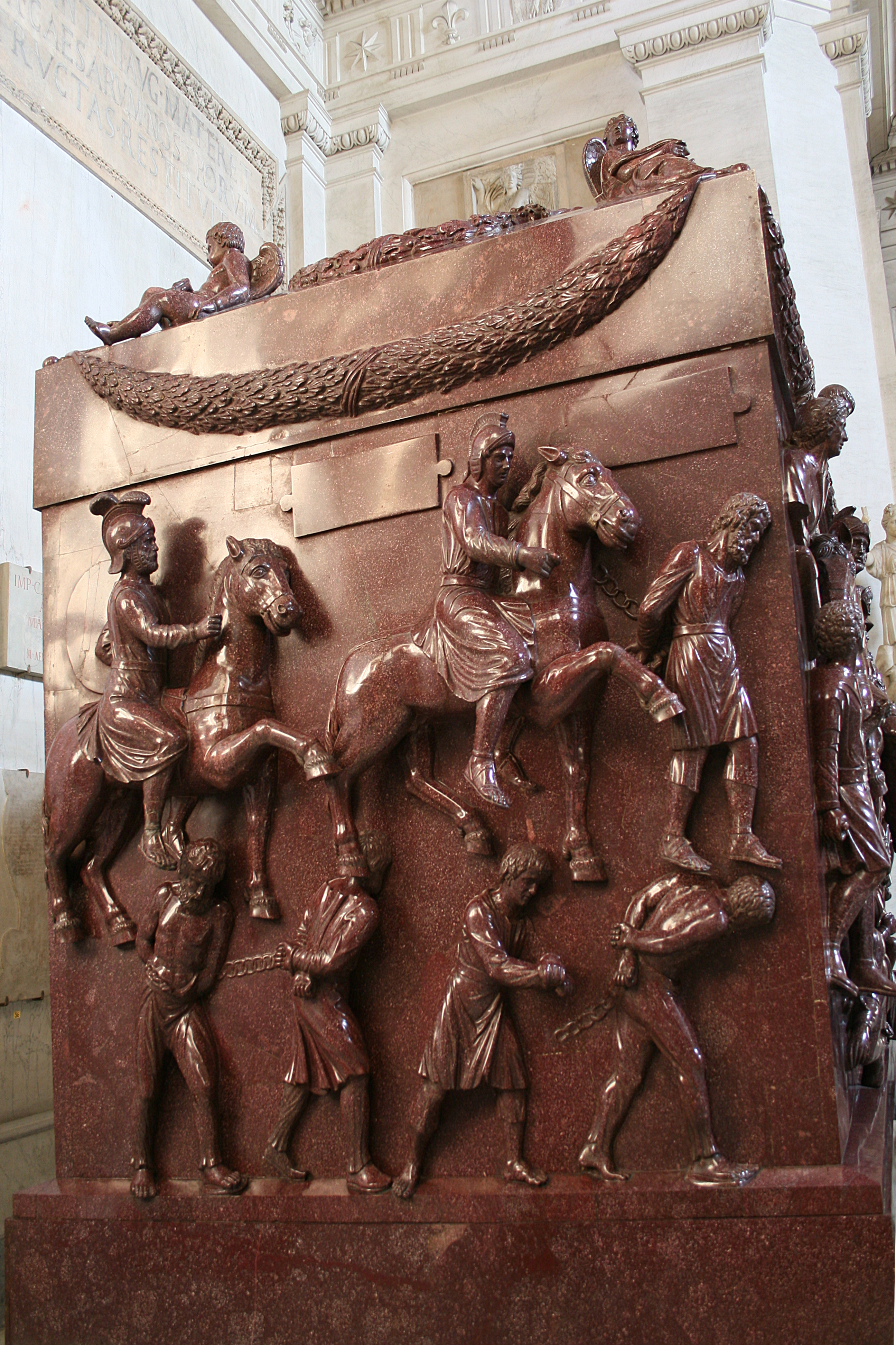 Sarcophagus of Saint Helena (mother of emperor Constaninus I, also known as Saint Constance), sculpted around 340 AD. Formerly in the Basilica of St. John Lateran in Rome. It is now on display at the Museo Pio-Clementino in the Vatican City.